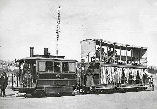 Steam tram - showing steam motor and trailer car Dated: c. 1/01/1879 Digital ID: 17420_a014_a0140001140 Rights: We'd love to hear from you if you use our photos. Many other photos in our collection are available to view and browse on our website using Photo Investigator.